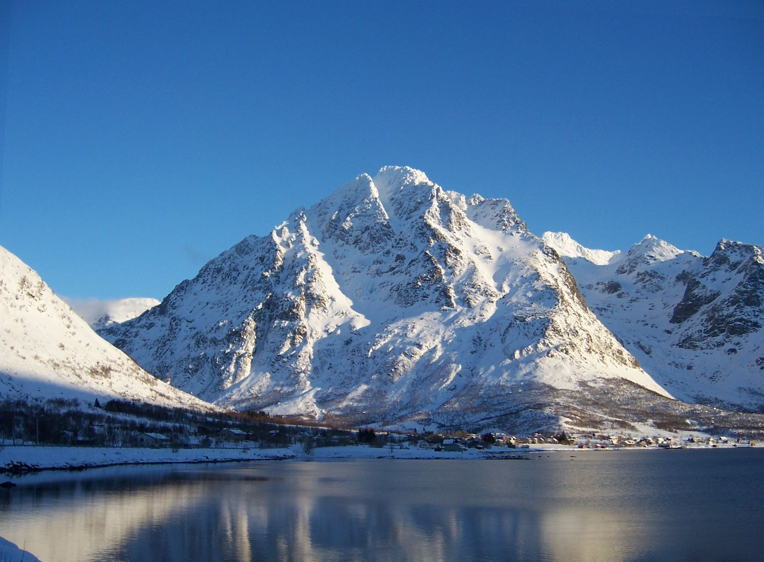 Higravstindan, highest mountain in Lofoten